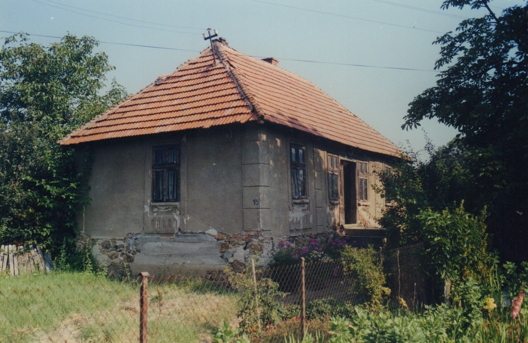 House of Sava Jeremić in Poslon, Ražanj